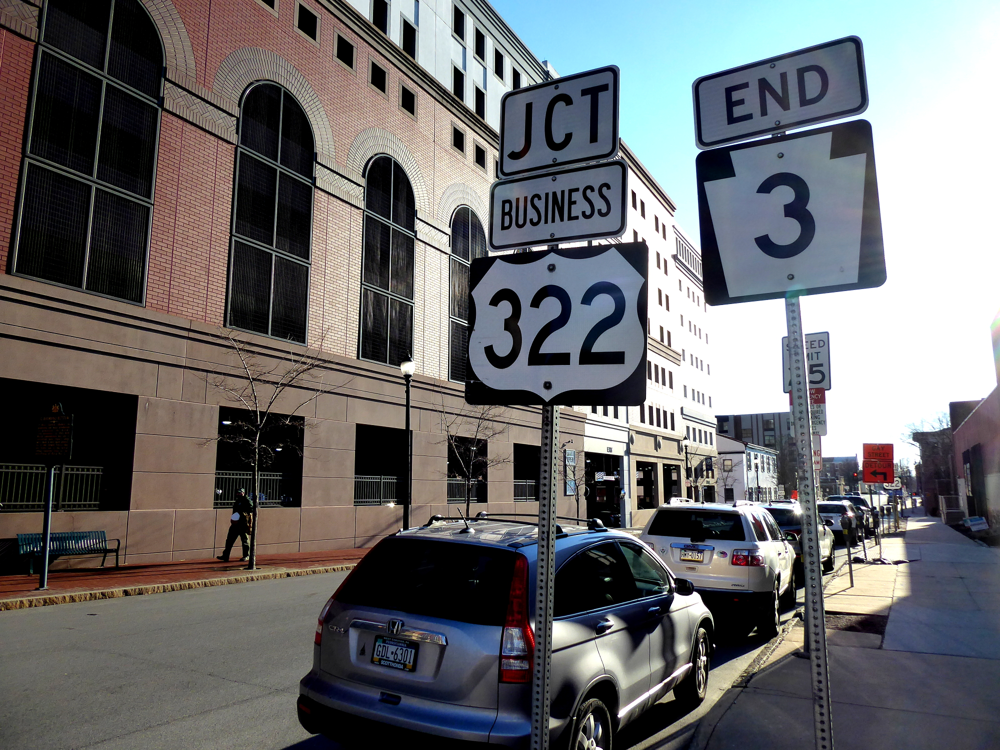 Pennsylvania Route 3 western terminus at U.S. Route 322 Business (High Street) in the Borough of West Chester.